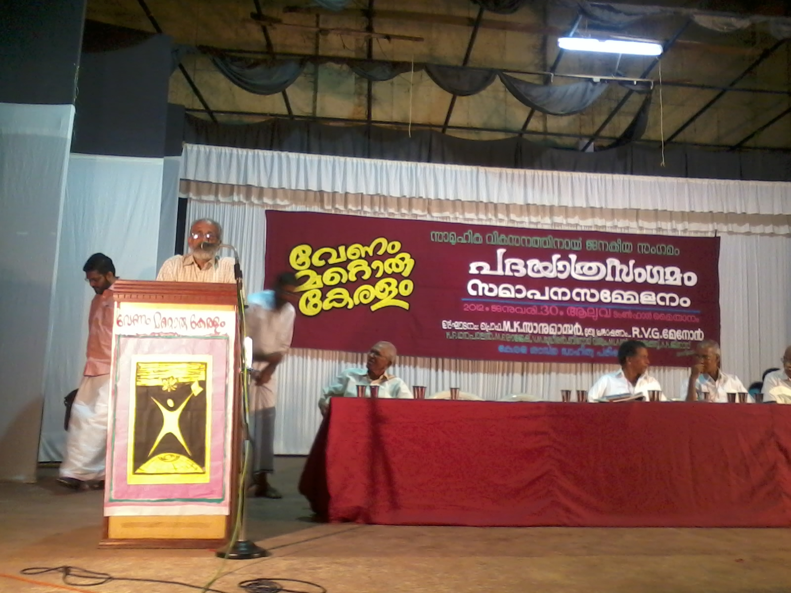 Venam mattoru keralam Campaign by KSSP